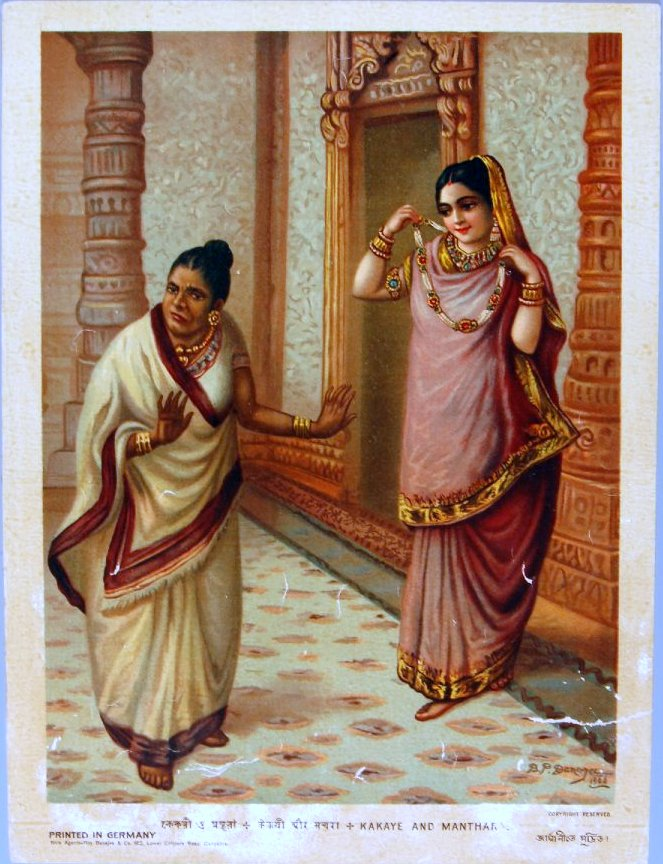 Kakaye and Manthara Back to search results Object type print Museum number 1989,0204,0.63 Title (object) Kakaye and Manthara Description Print. From a signed and dated painting by B.P. Banergee. The Kaikeyi and Manthara episode in the Ramayana. Printing inks on paper. Inscribed. Producer name Made by: B P Banerjee biography Date 1906 Production place Printed in: Germany (Europe,Germany) Findspot Found/Acquired: West Bengal (Asia,South Asia,India,West Bengal) Materials paper Technique printed term details Dimensions Height: 57 centimetres Width: 42.7 centimetres Inscriptions Inscription Type inscription Inscription Language English Inscription Comment inscribed with title Inscription Type inscription Inscription Language Bengali Inscription Comment inscribed with title Inscription Type inscription Inscription Language Hindi Inscription Comment inscribed with title Inscription Type inscription Inscription Script Roman Inscription Position bottom left Inscription Language English Inscription Content Printed in Germany Location Not on display Subjects hindu epic figure/creature term details Associated names Representation of: Manthara Representation of: Kaikeyi biography Associated titles Associated Title: Ramayana Acquisition name Purchased from: Ashit Paul biography Acquisition date 1989 Department Asia Registration number 1989,0204,0.63